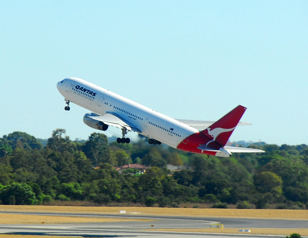 Qantas moments after lift off pn runway 21.